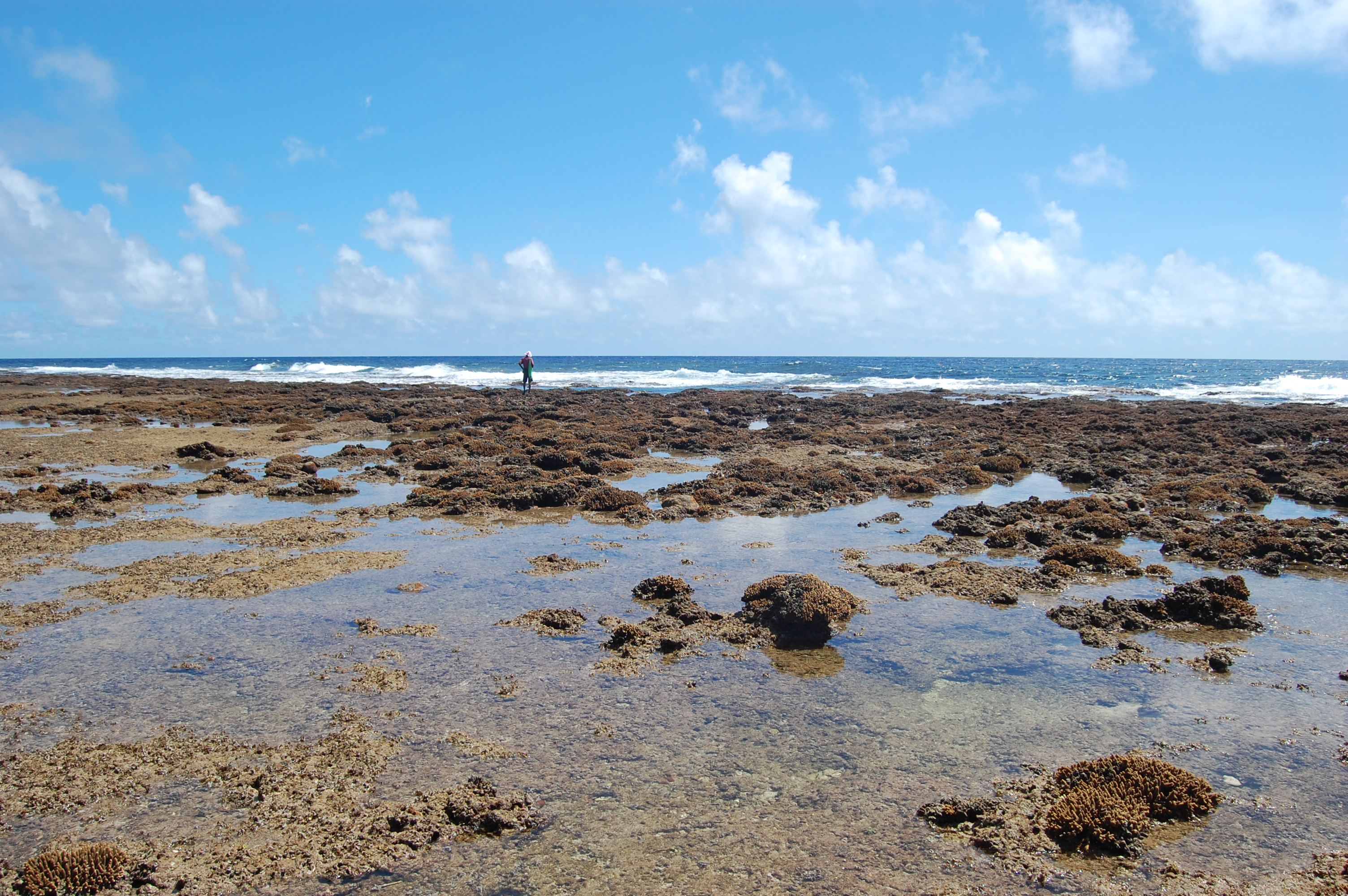 Picture of coralreef during low tide.